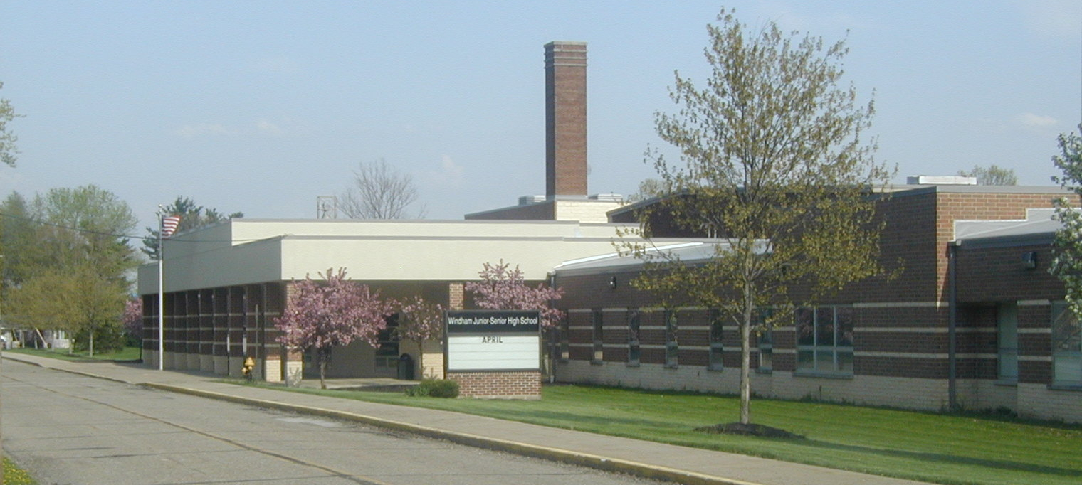 Photograph of Windham High School in Windham, Ohio